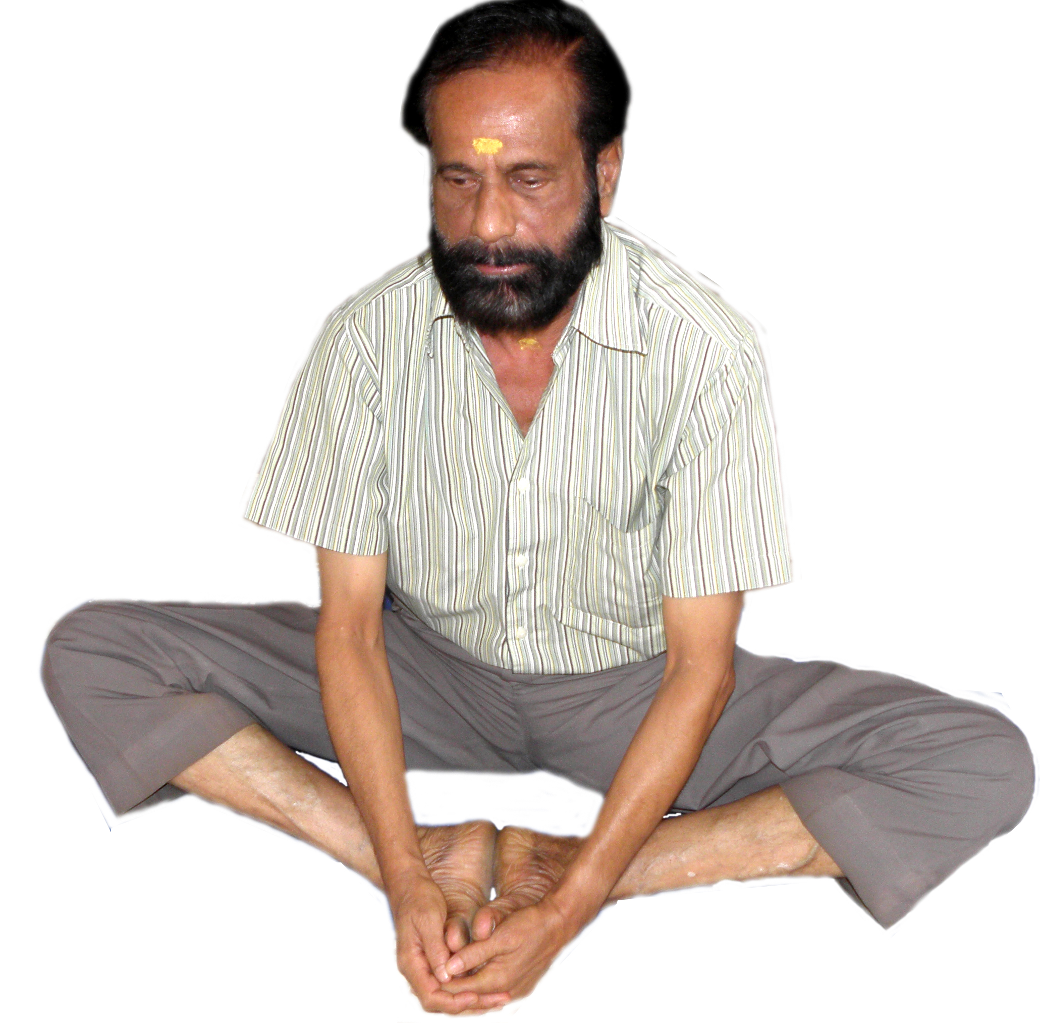 Cobbler Pose